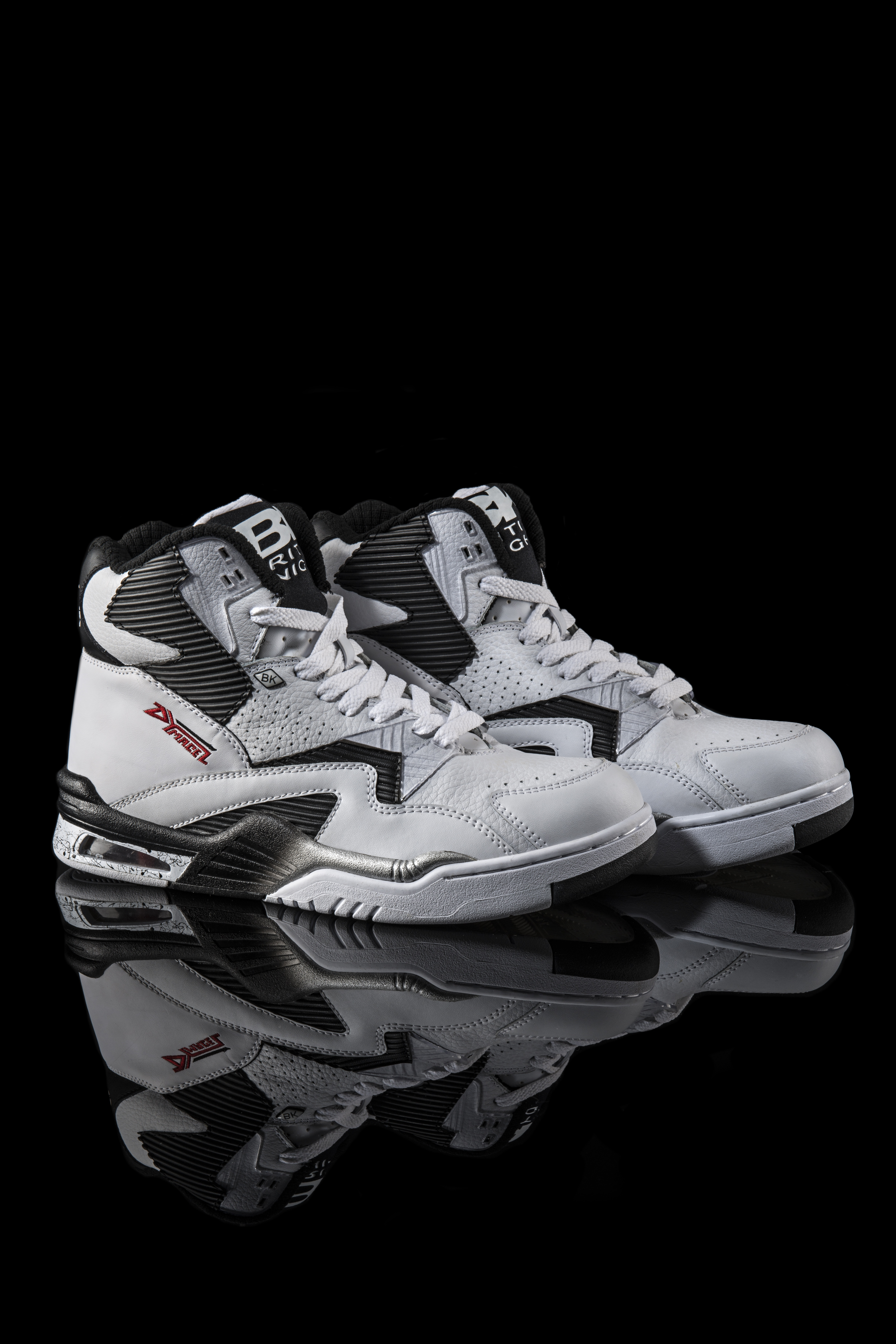 British Knights footwear